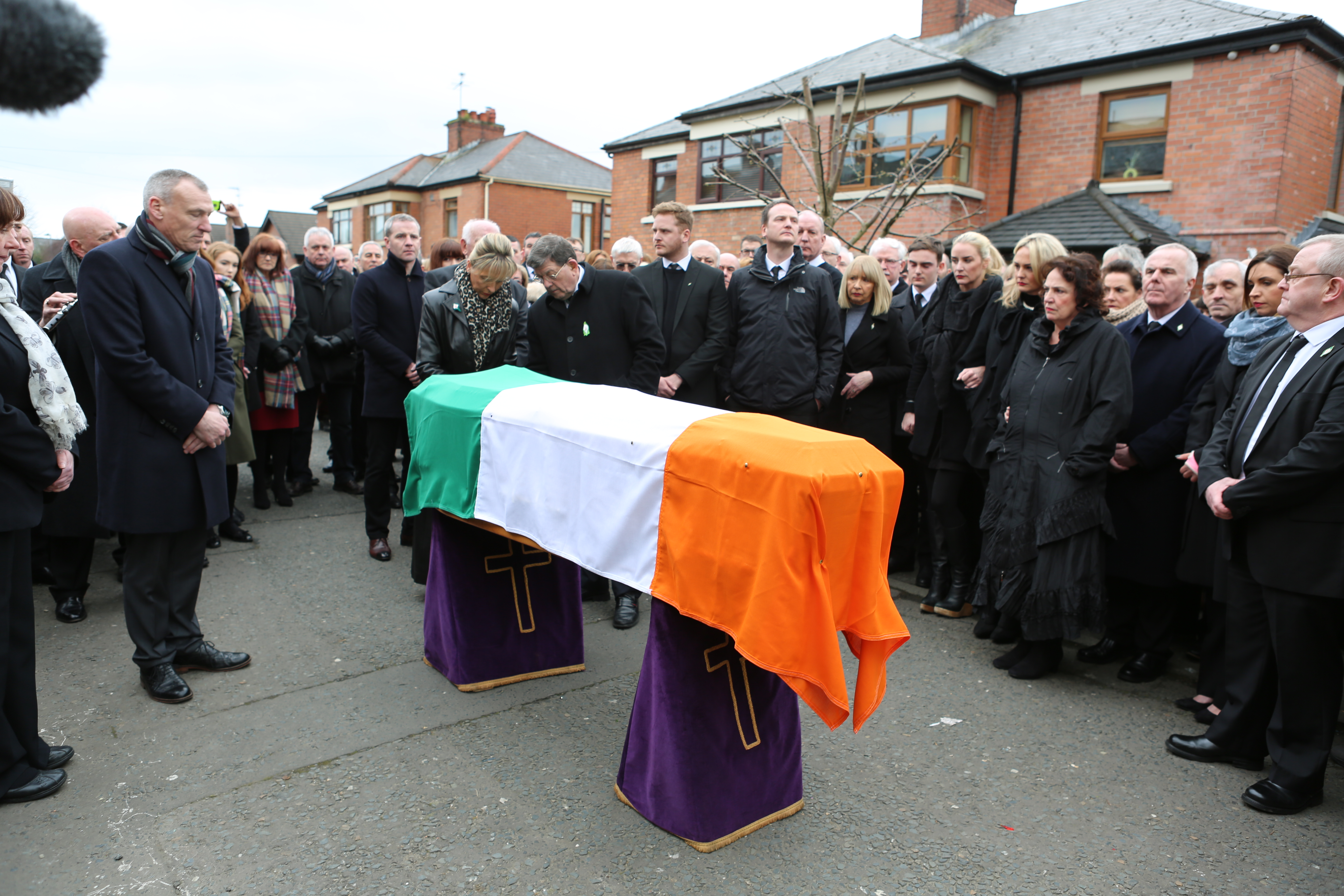 Martina Anderson and Pat Doherty place the National Flag on Martin McGuinness' coffin.